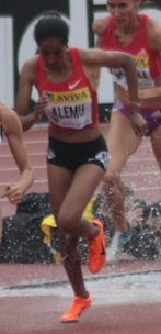 Birtukan Fente Alemu, Crystal Palace Grand Prix, Diamond League 2012